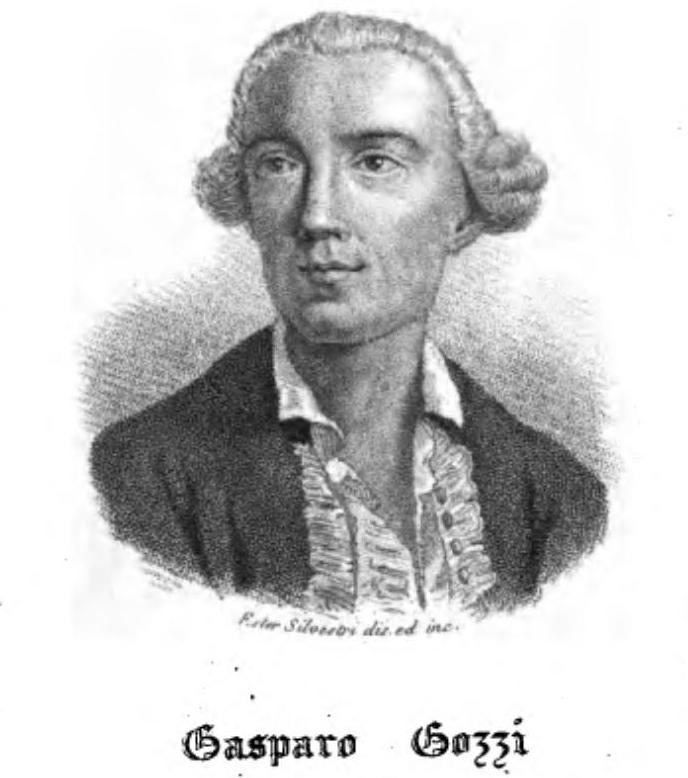 Drawing of Gaspare Gozzano, printed into his book : File:Novellette e racconti.djvu